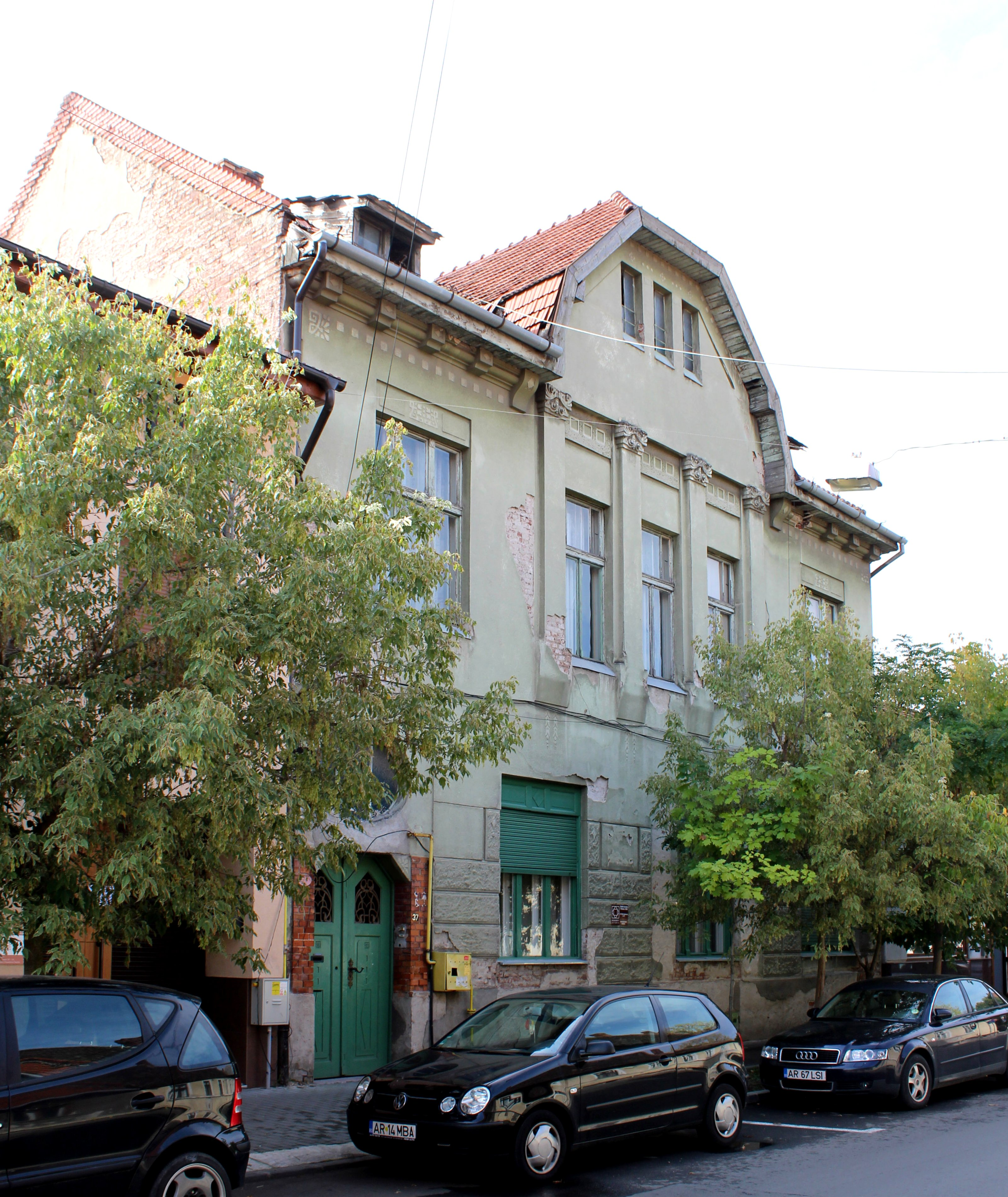 Palace of newspaper "Tribuna", Arad, Romania.